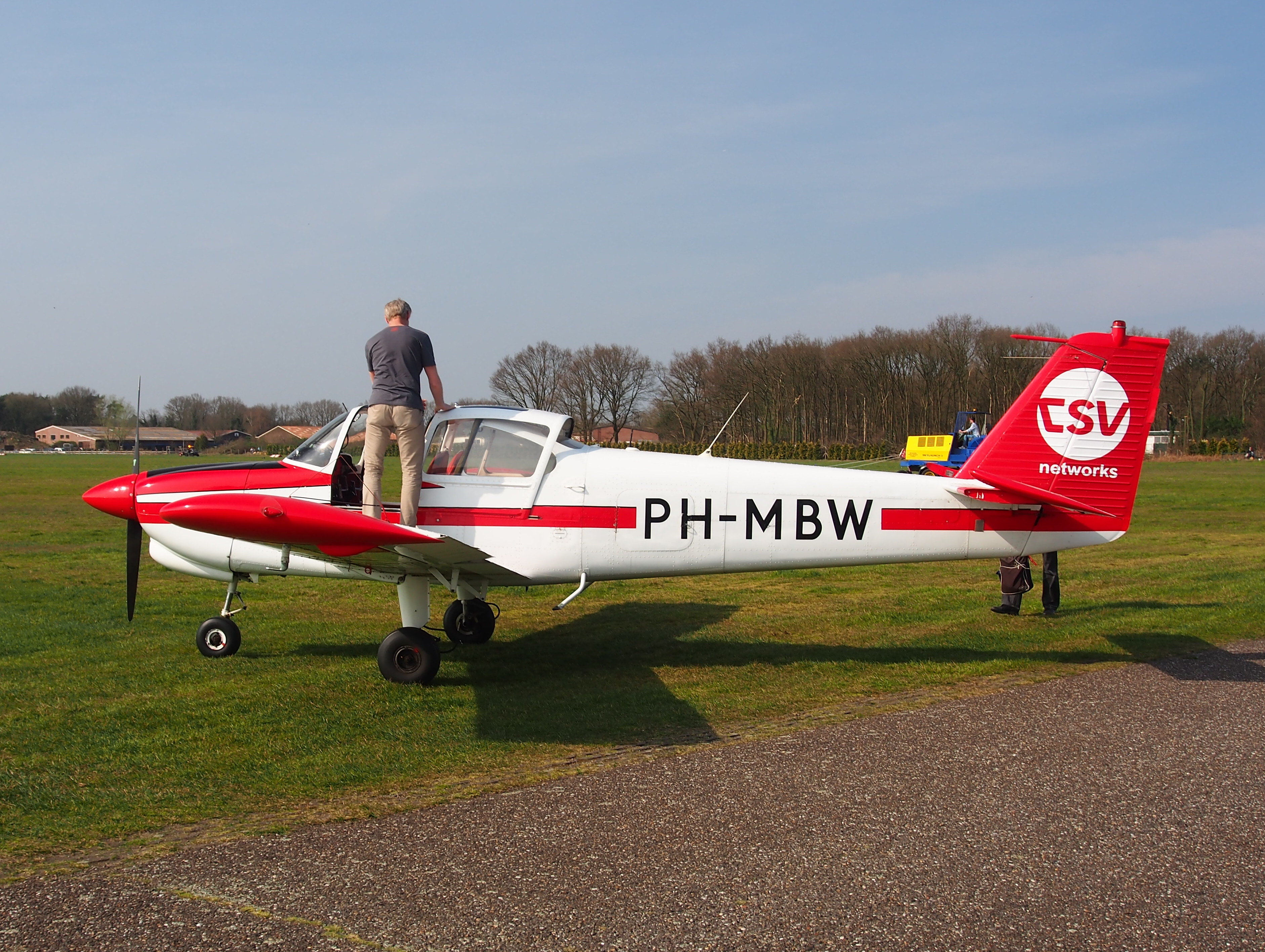 Photographed at Hilversum Airport (ICAO EHHV), The Netherlands.